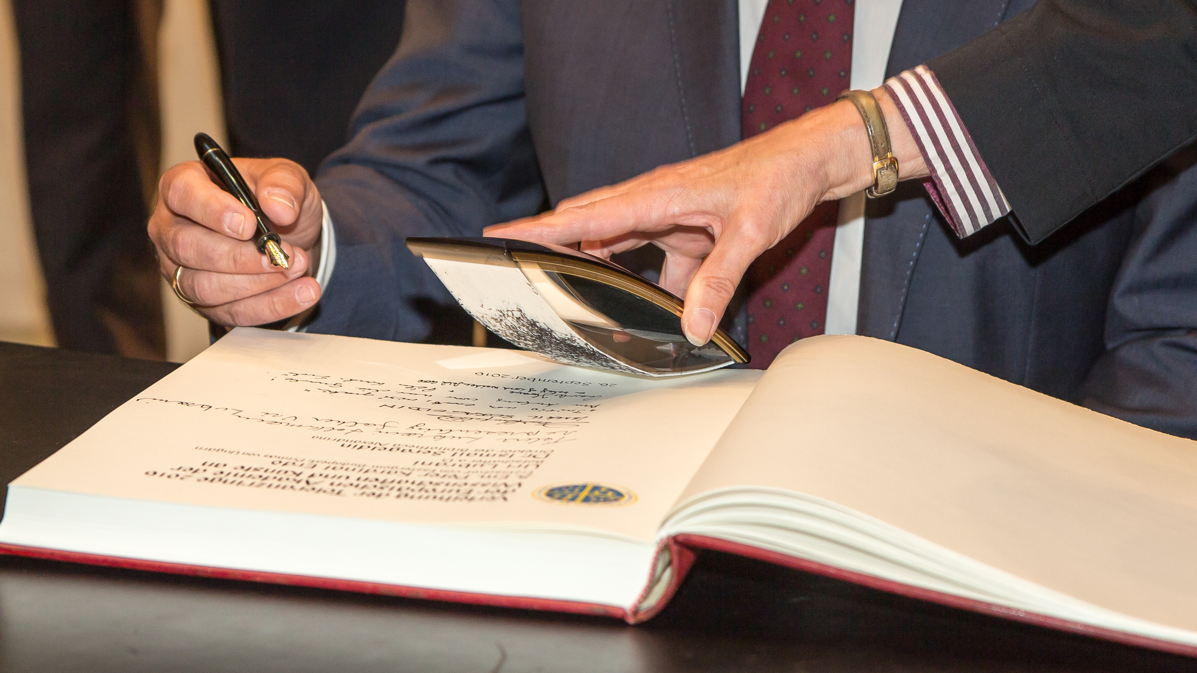 Award ceremony of the European Academy of Sciences and Arts in the city townhall of Cologne, 2016